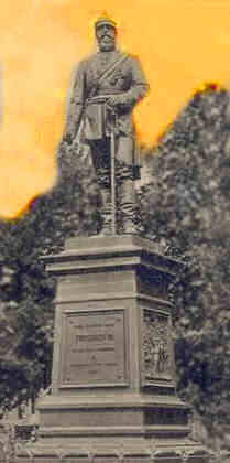 The picture shows the old monument in Spandau which commemorated Kaiser Friedrich. The monument was demolished in the 1920s. III